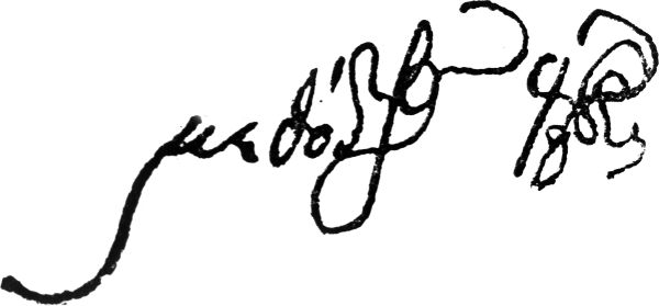 Signature of Methodios Anthrakitis, greek mathematician